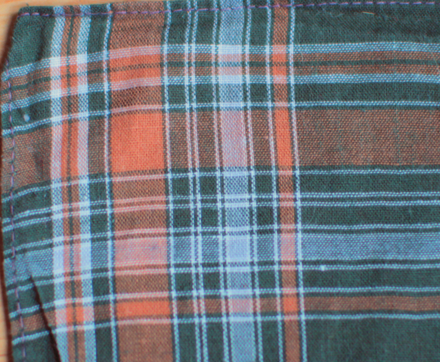 Chavacano de Zamboanga: Part of a handkerchief with Madras pattern